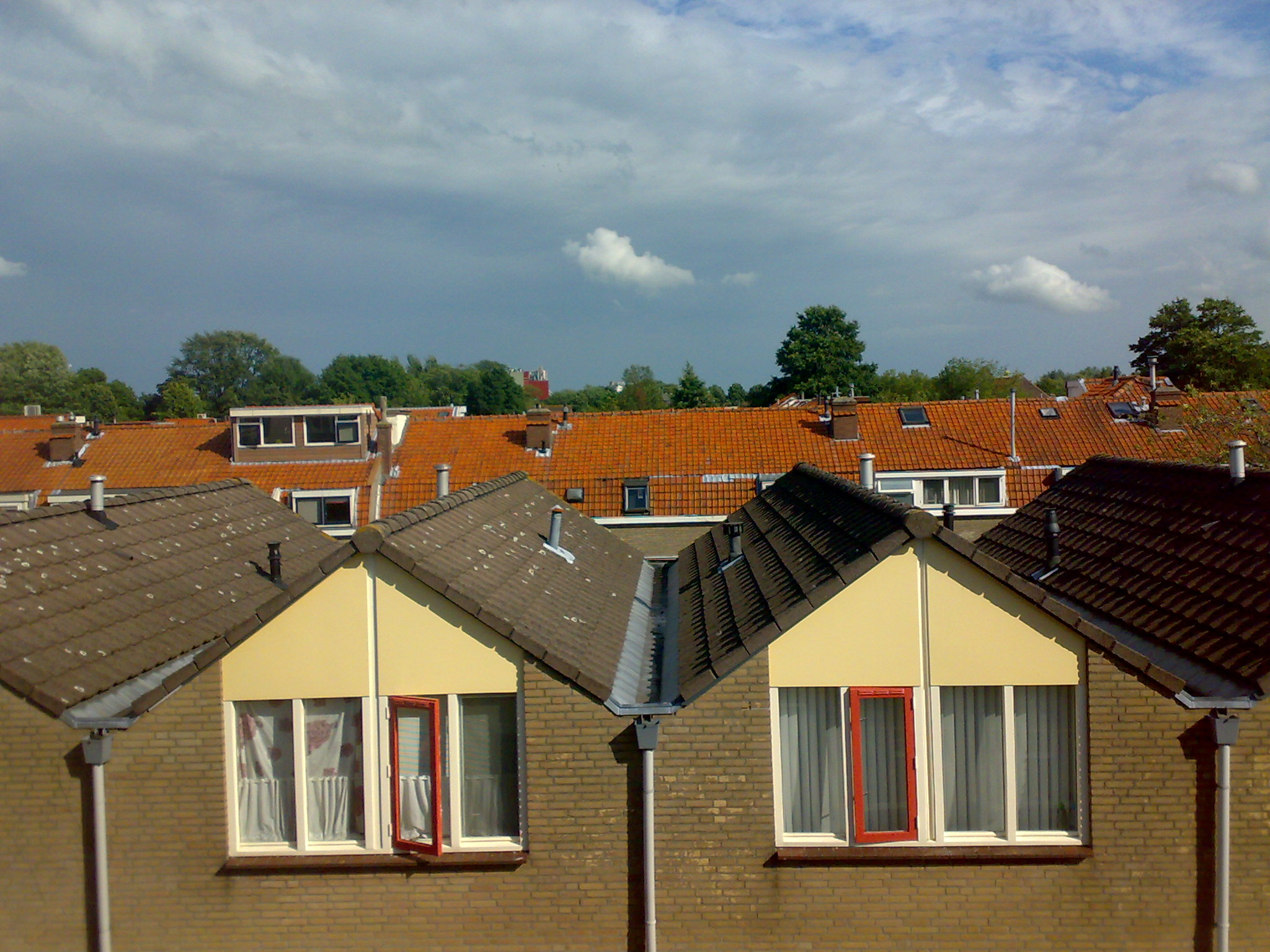 The Herenstraat in Gouda, Netherlands. Behind that is the Woudstraat.